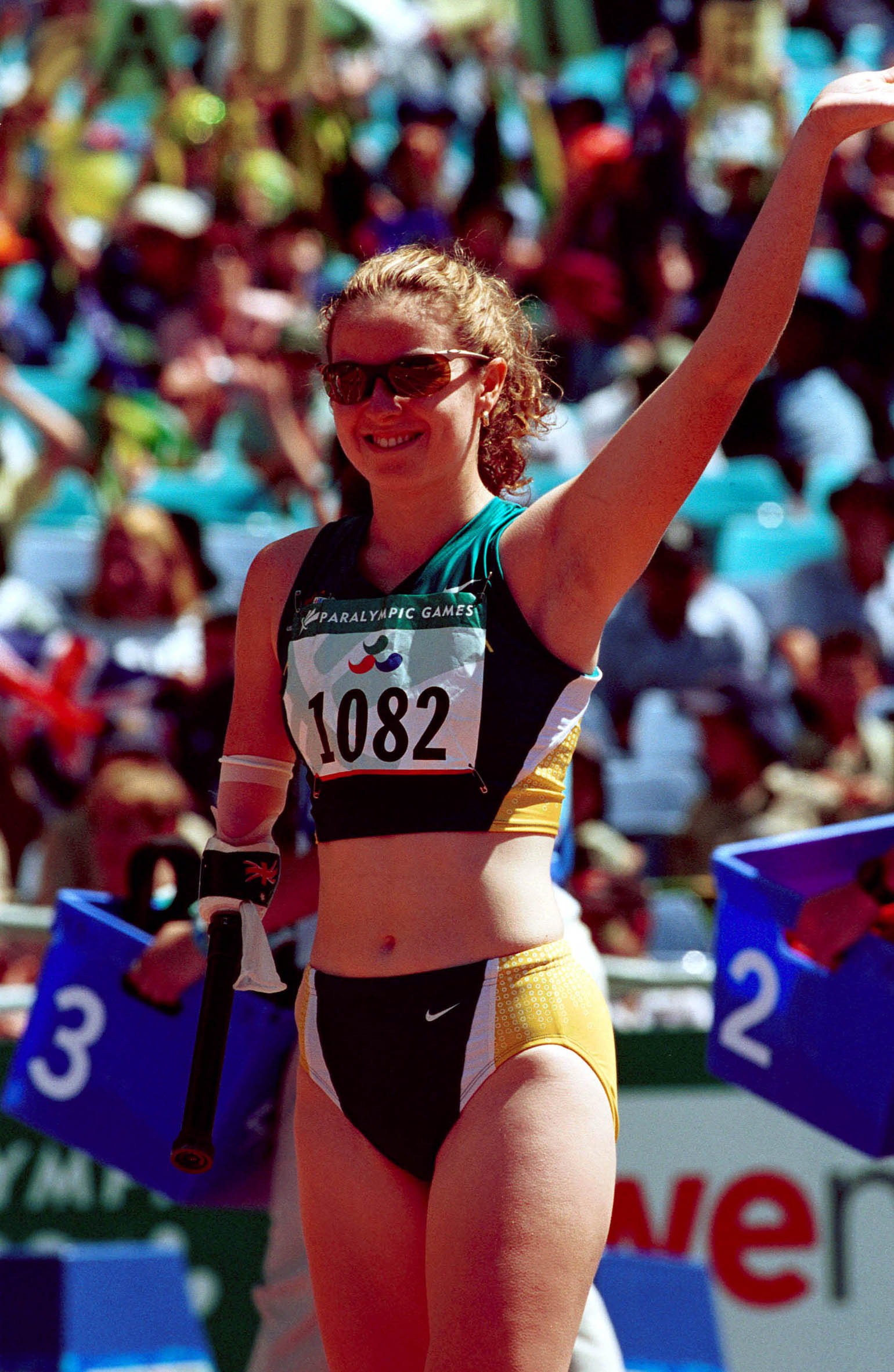 Australian track athlete Amy Winters waves to the crowd at the 2000 Sydney Paralympic Games, Day 07